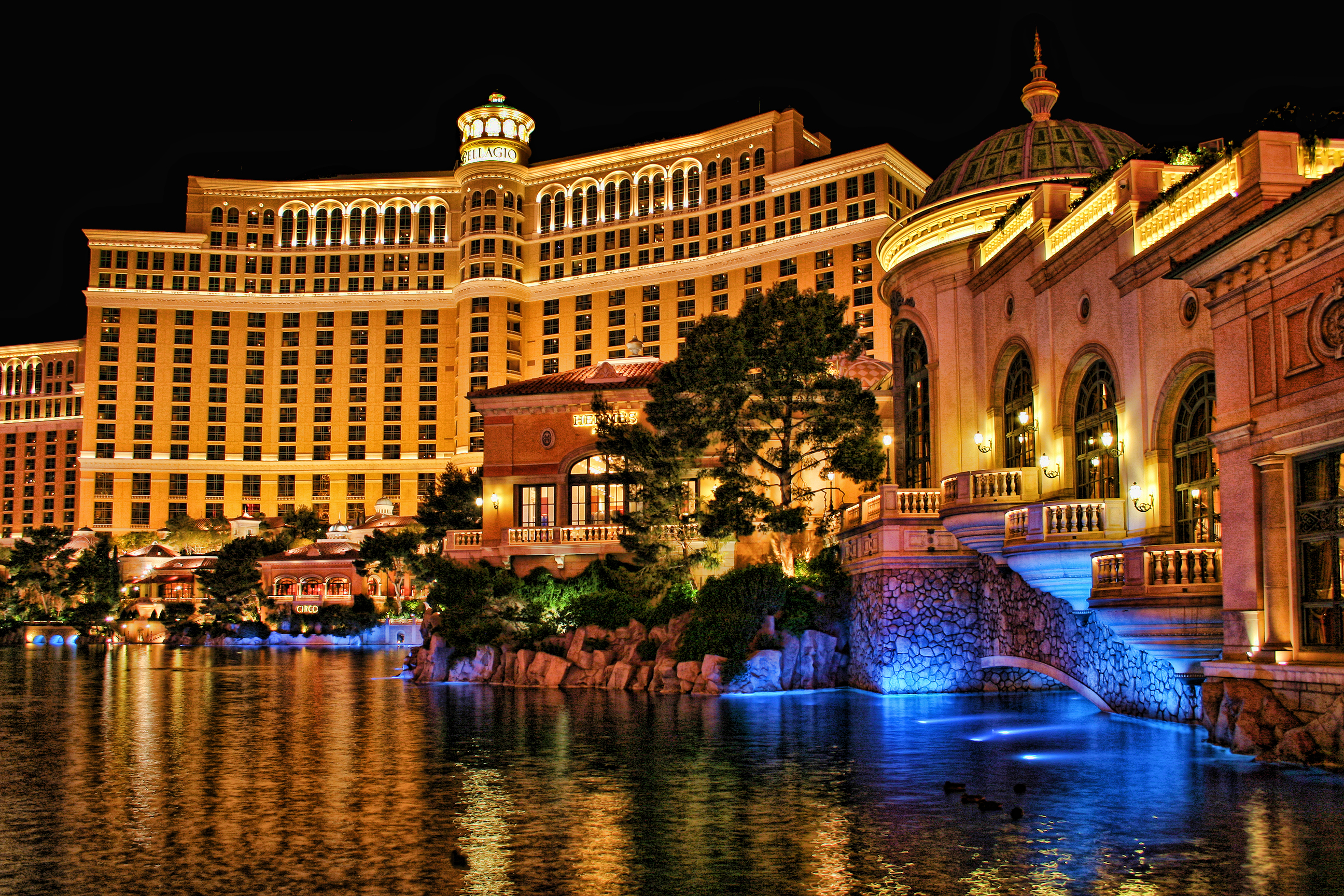 Bellagio Casino and Hotel at Night